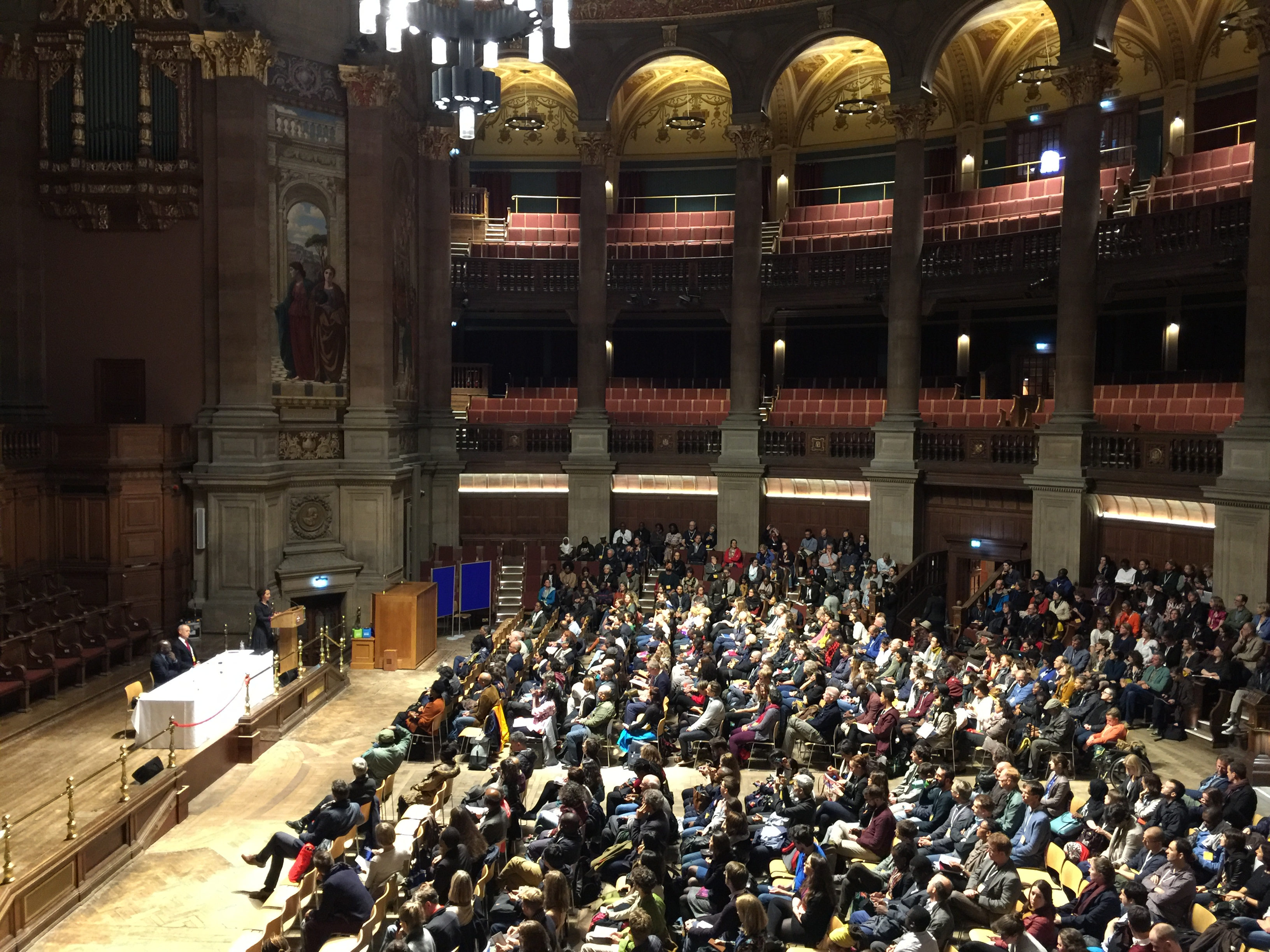 ECAS 2019 in McEwan Hall, Edinburgh University. Opening Keynote of the European Conference on African Studies. Microphone: Amanda Hammar (president of AEGIS), table: Mamadou Diouf (Columbia University) and Thomas Molony (Edinb. Univ.)